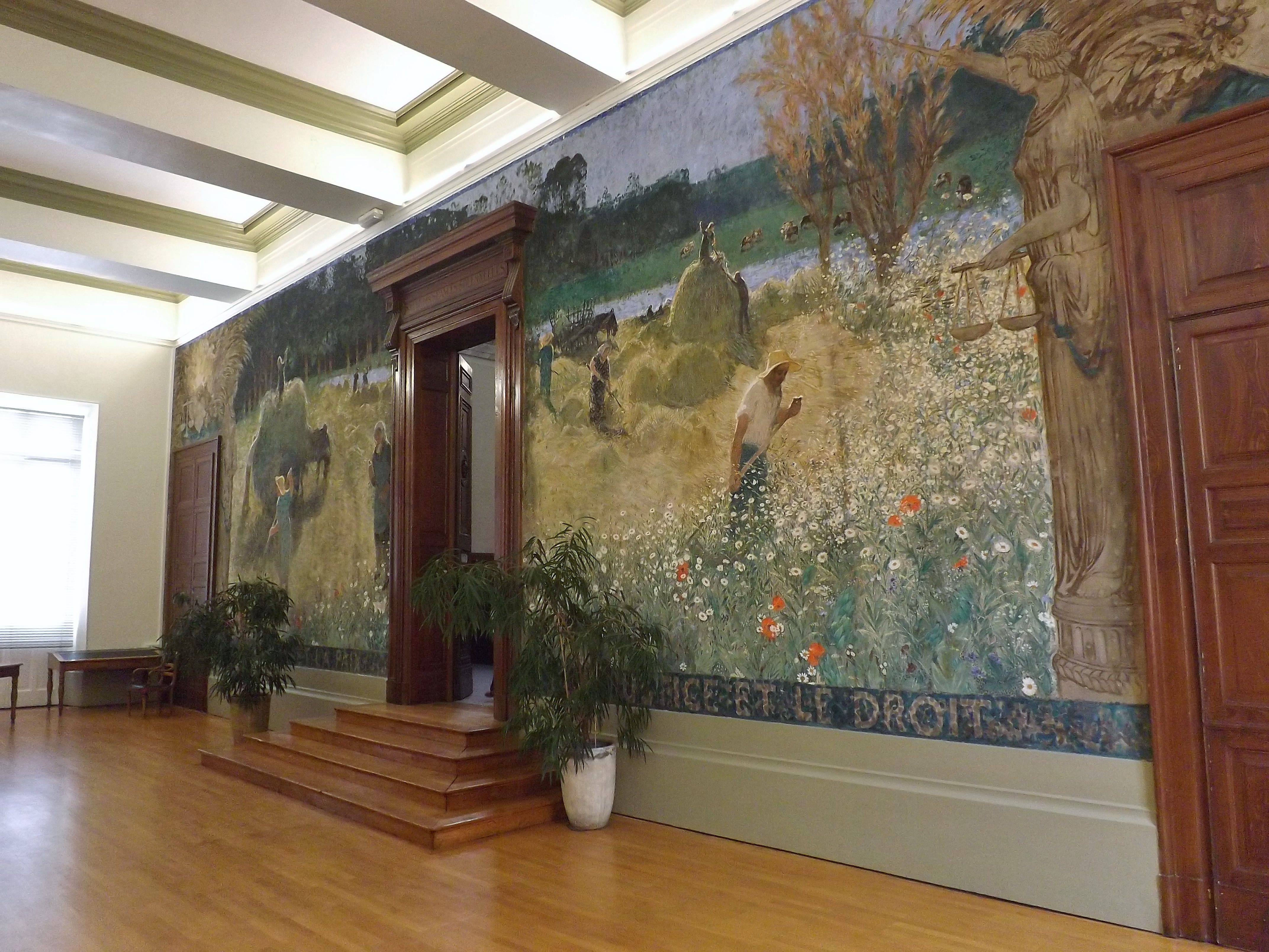 Sight of the salle des pas perdus room, and its huge wide fresco from Pierre Montezin (1939), in the city of Chambéry courthouse, in Savoie, France.